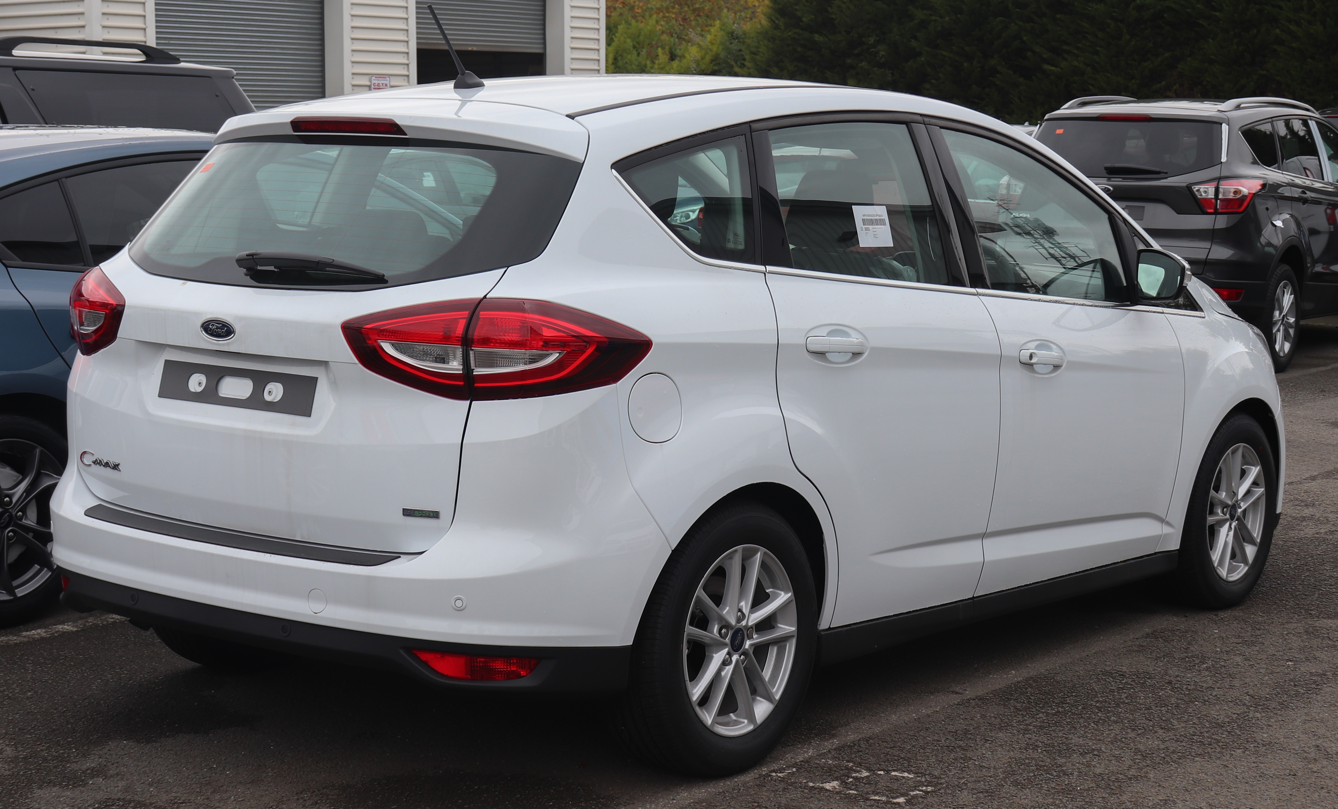 2018 Ford C-Max facelift Rear Taken in Leamington Spa